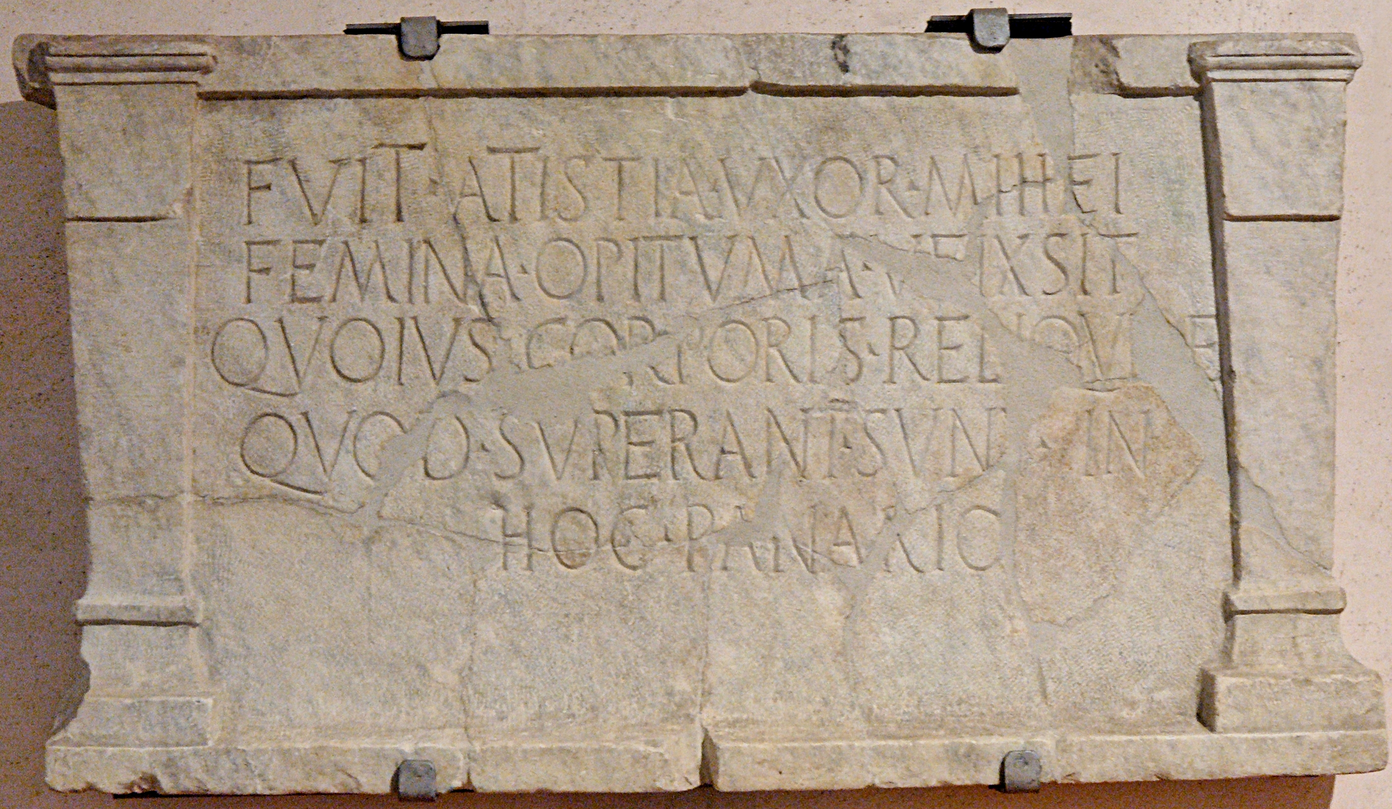 Funeral stele of Atistia. Latin inscription: “Fuit Atistia uxor mihei/ femina opituma ueixsit/ quoius corporis reliquiæ/ quod (sic) superant sunt in/ hoc panario” (“Atistia was my wife. She lived as an excellent woman, whose surviving remains are in this bread basket”). Found at the Porta Maggiore, 1838.